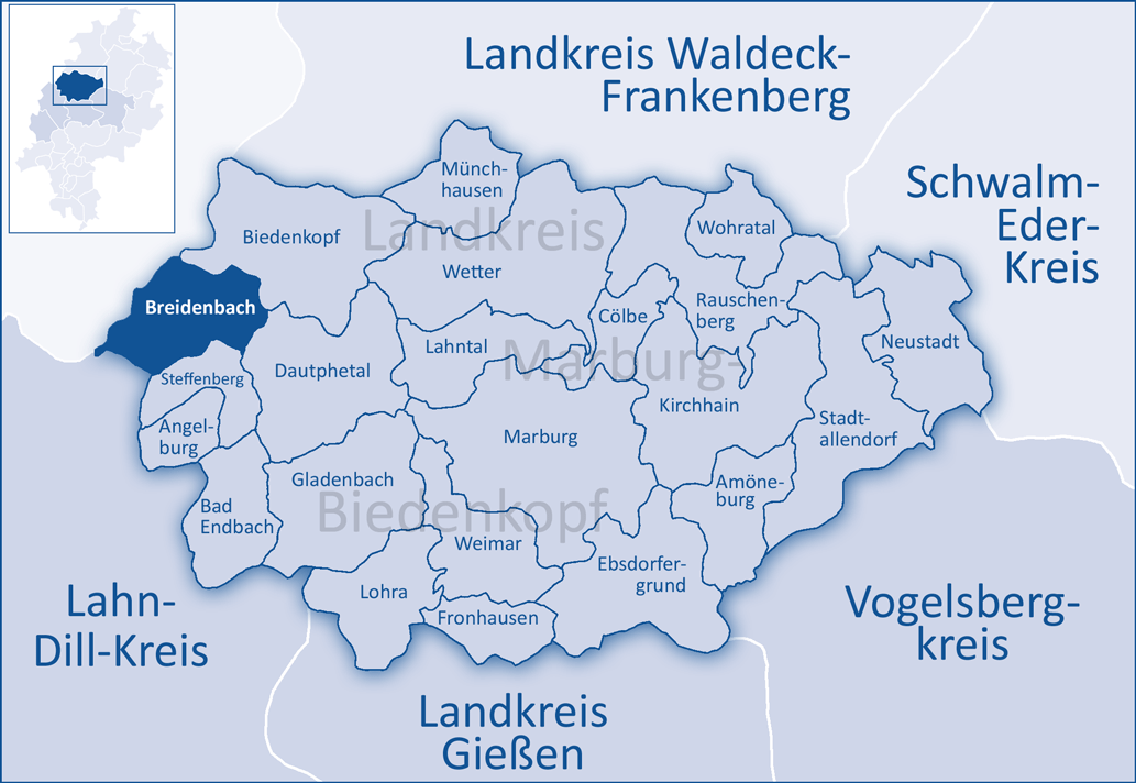 The map shows the municipal territory of Breidenbach in the district of Marburg-Biedenkopf.